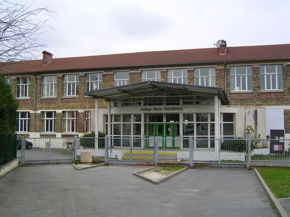 Collège Pierre Weczeka Chelles (Seine-et-Marne) Photo personnelle (own work) de Marianna